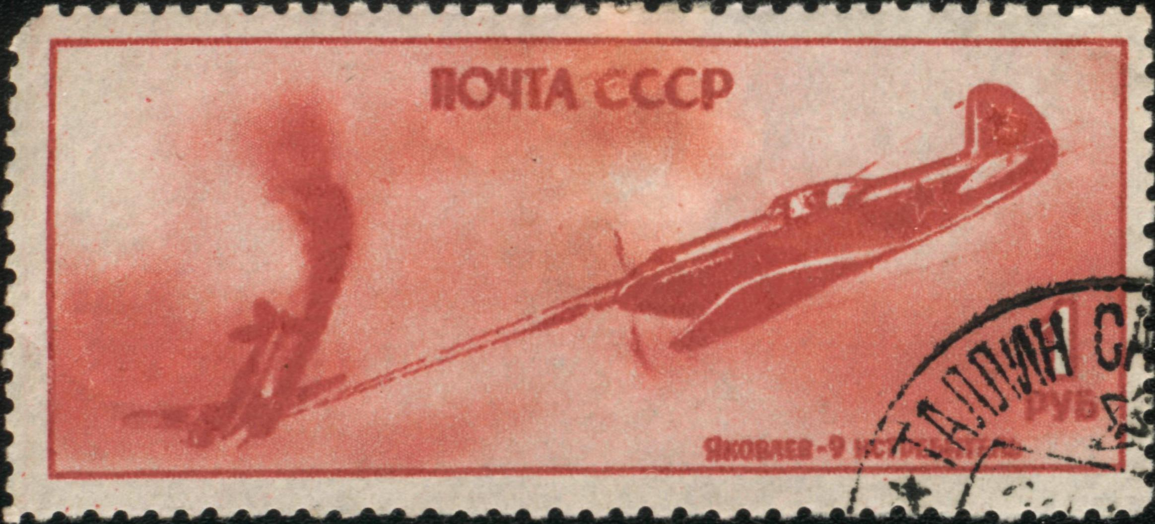 USSR stamp, 1945, Yakovlev Yak-9 fighter aircraft in combat. CPA #995, 1 ruble, used.